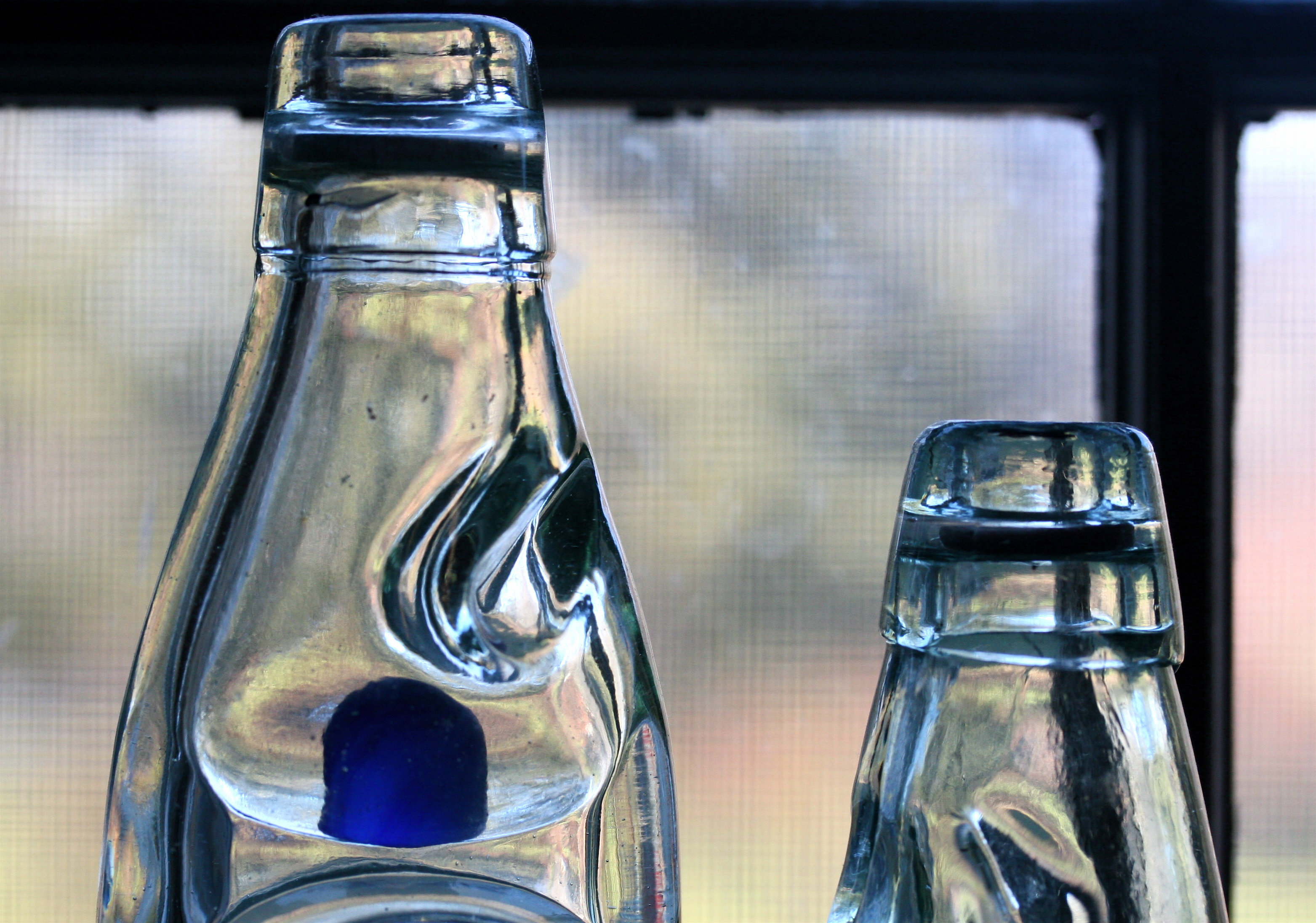 These two bottles are old soda bottles. Apparently, the gases from the soda would force the ball into the neck of the bottle, effectively sealing it. The bottle on the right has only a clear greenish glass ball in it. The one on the left is the only such bottle I've seen with a cobalt marble inside.